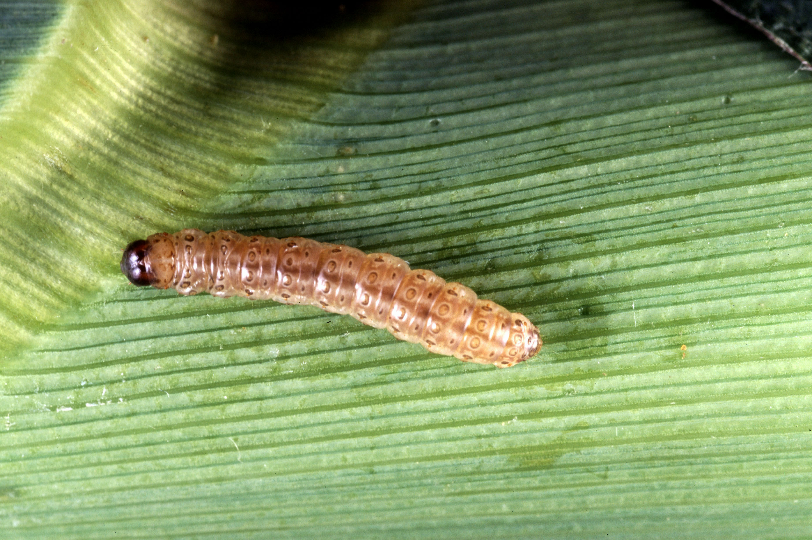 European corn borer, Ostrinia nubilalis Photo by Keith Weller.